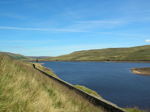 Angram Reservoir. A lower than normal Angram.